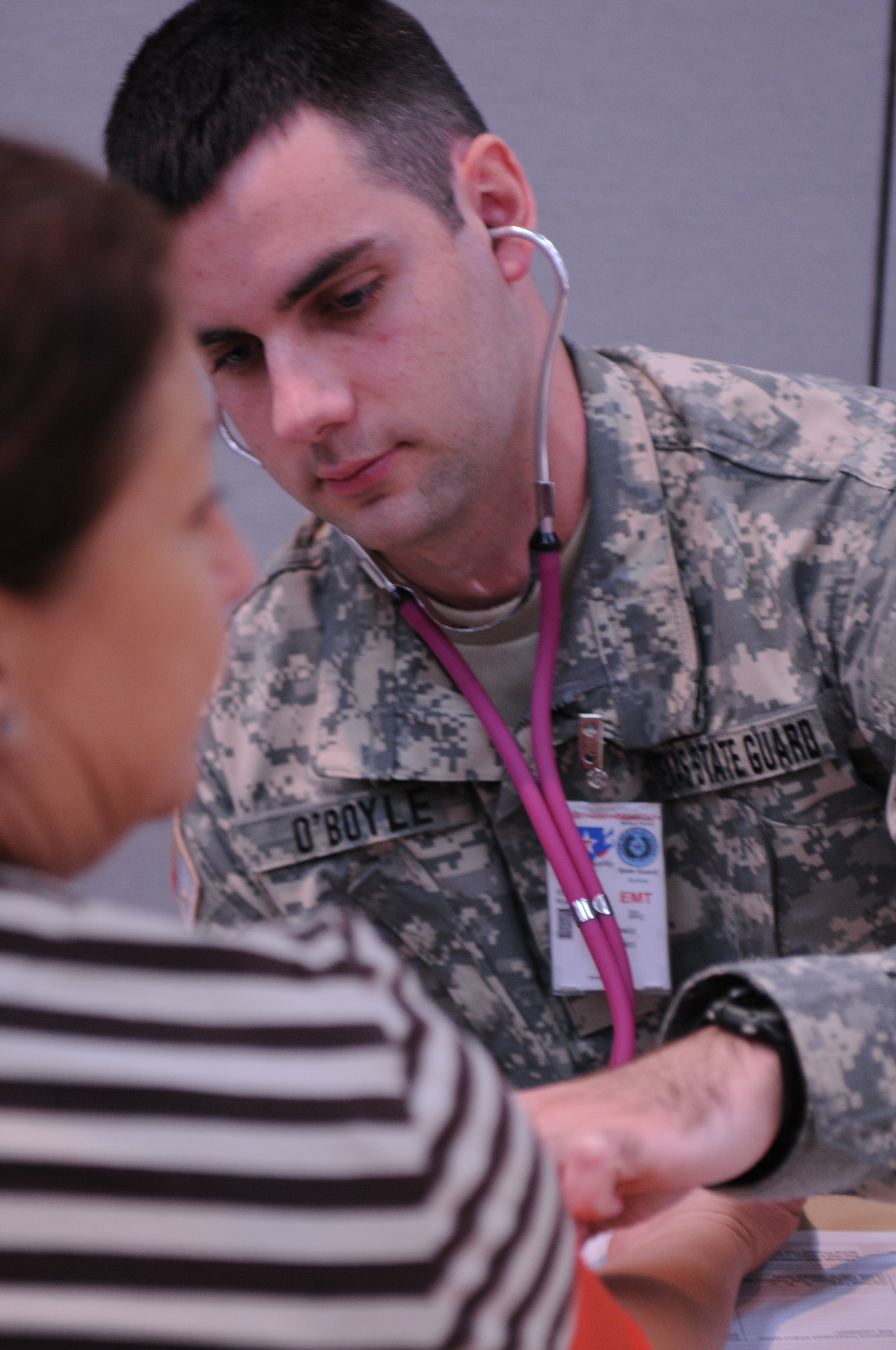 State Guard Pfc. Kyle O'Boyle with the Galveston County Medical Response Group checks the blood pressure of a patient during a humanitarian mission Aug. 1, in Laredo, Texas. The mission, known as Operation Lone Star, is an annual event that provides free medical services to people along the Texas border. More than 400 Texas Military Forces service members, 200 state and county employees and numerous volunteers collaborated for the exercise to not only help Texans in need but also to conduct a real-world training event in preparation for any real world disasters or emergencies.